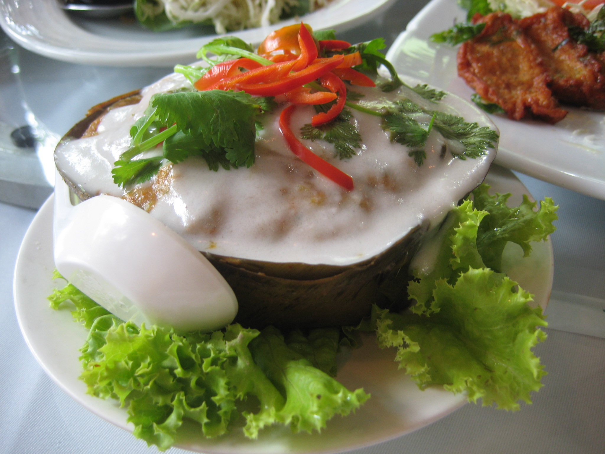 Thai style Otah (Hor mok).